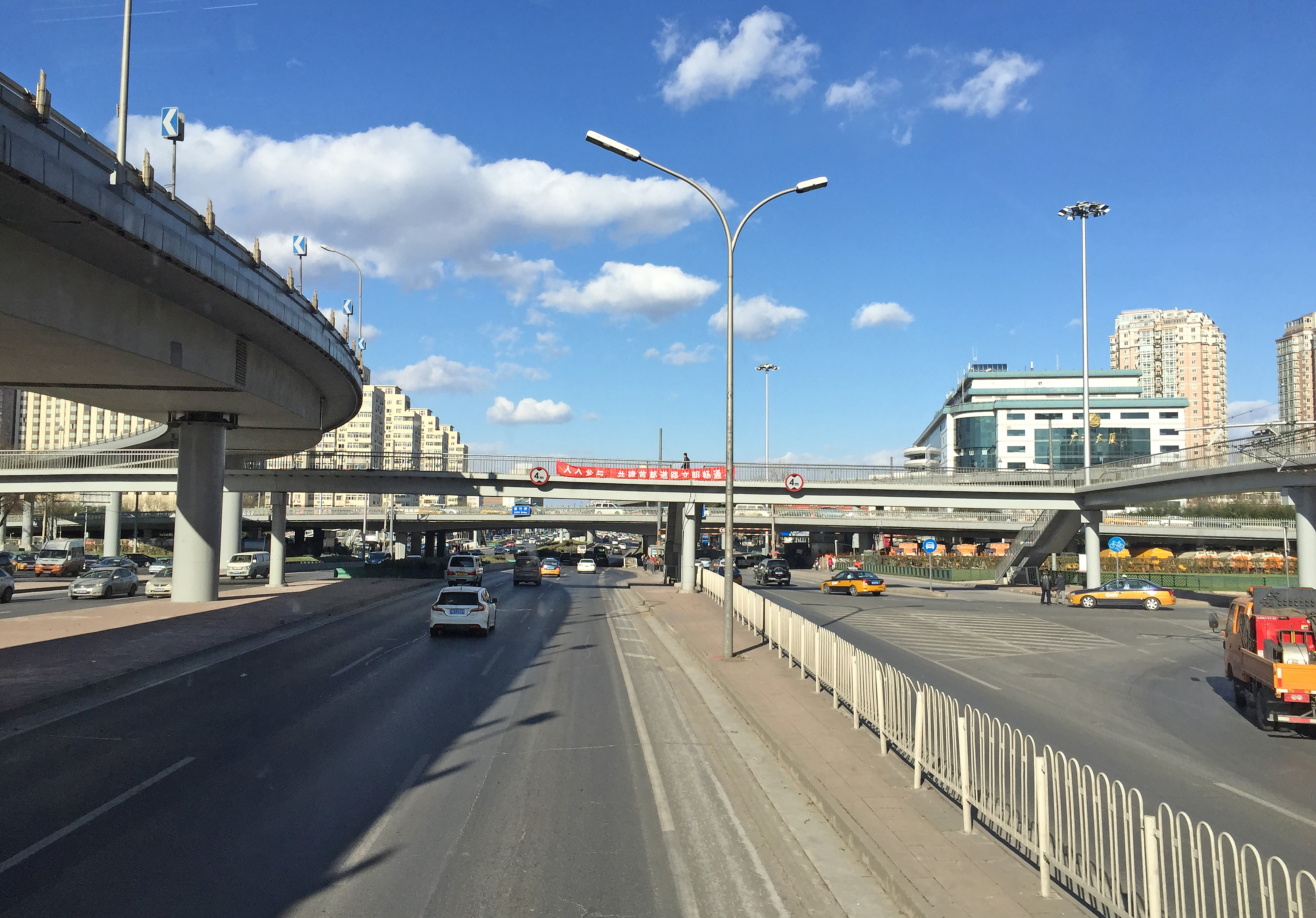 Taken from the upper deck of T8.